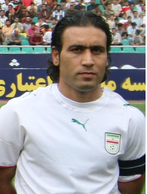 Mehdi Mahdavikia in 2006